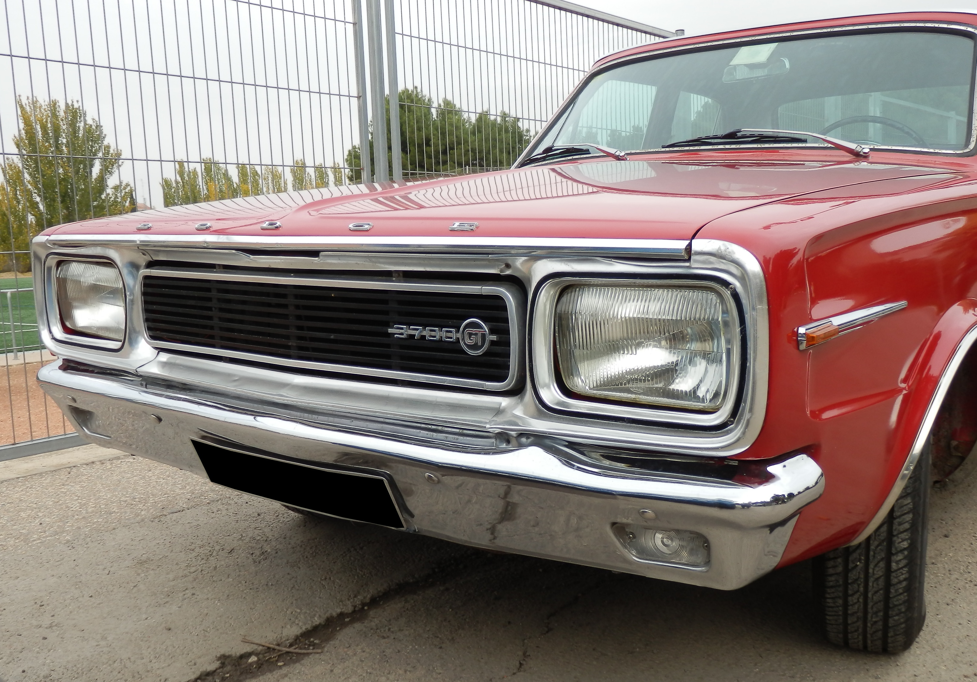 1969 Dodge Dart GT built by Barreiros Diésel S.A in Spain. Gasoline motor. 6 cylinder. 163 HP.